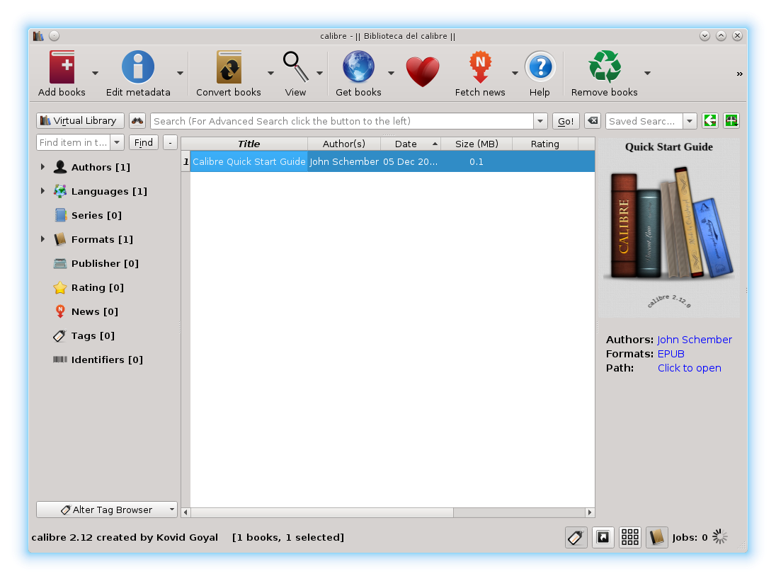 Calibre 2.12 screenshot in Arch Linux with KDE.